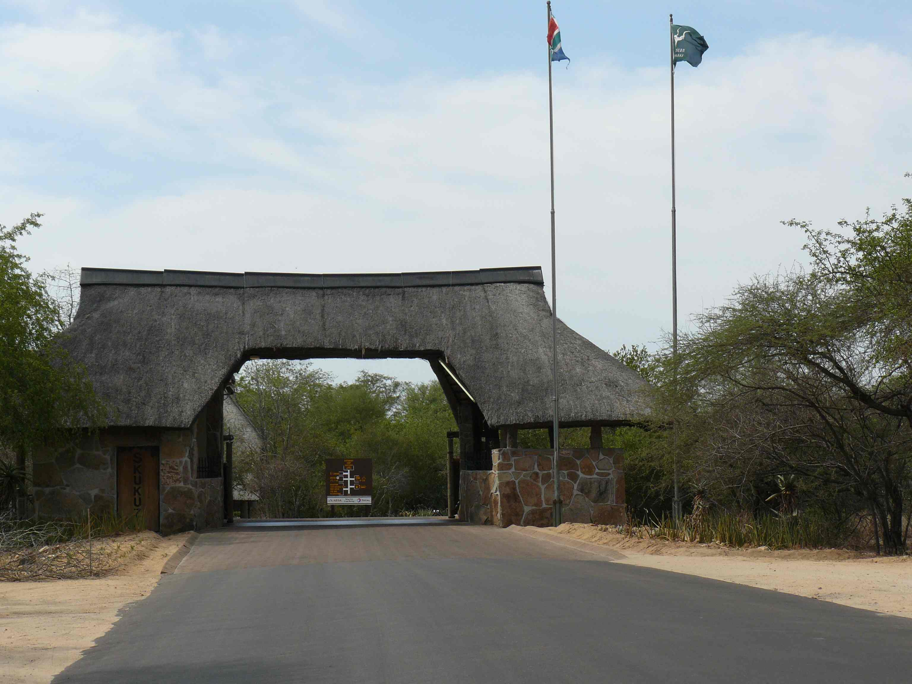 Entrance to Skukuza rest camp in the Kruger National Park, Mpumalanga province, South Africa